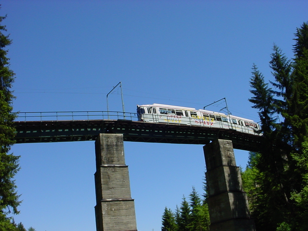 Stubaitalbahn car at Mutterer Brücke